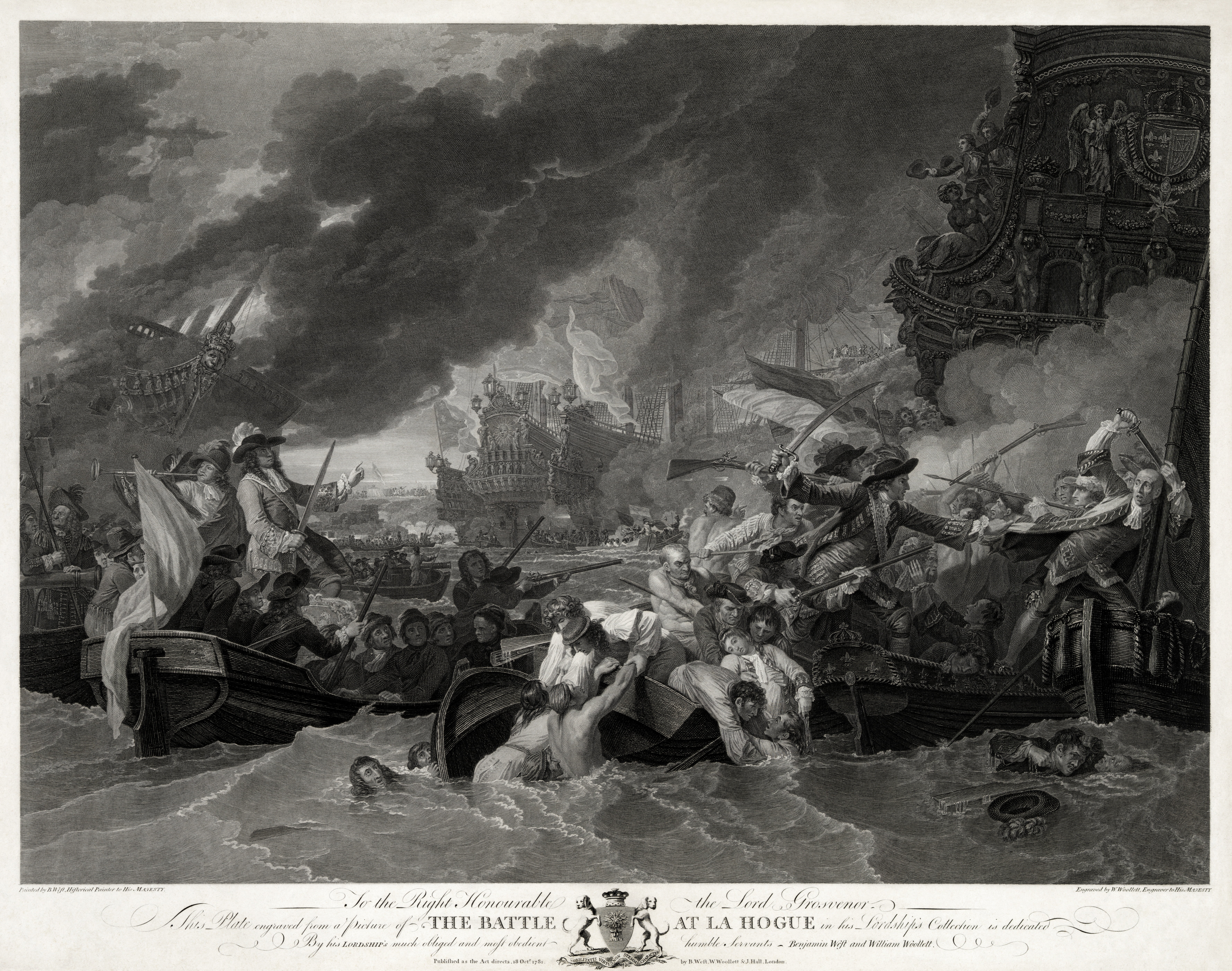 The Battle at La Hogue, probably showing the events of 24 May 1692, when the British sailors rowed in and torched the French ships. Dedicated to the Right Honourable the Lord Grosvenor, who apparently commissioned the painting this is based on.